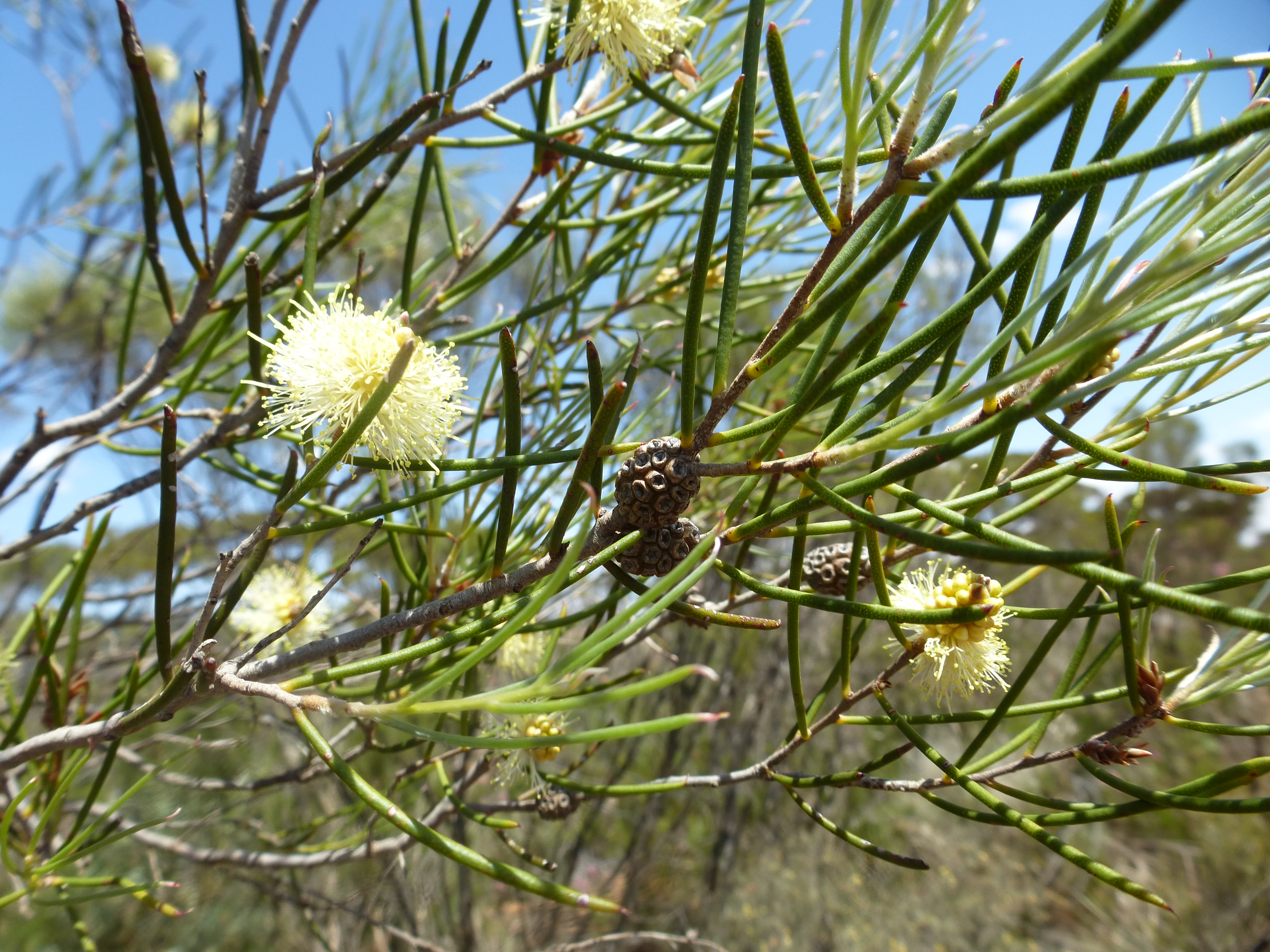 Melaleuca scalena growing along Bees Road near Babakin